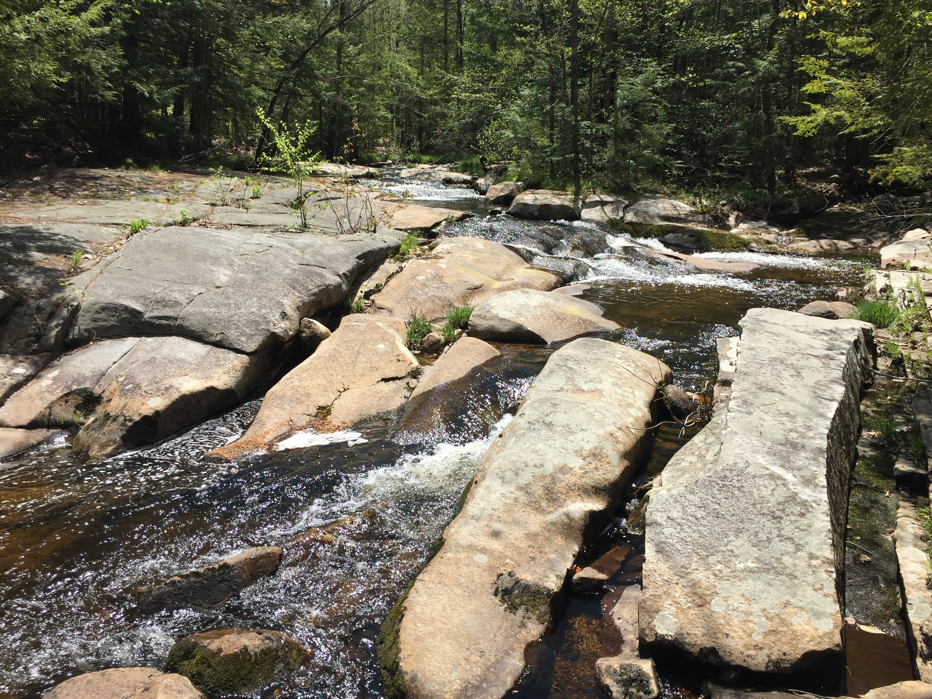 The Mad River (Cocheco River) in Farmington, New Hampshire, May 2016